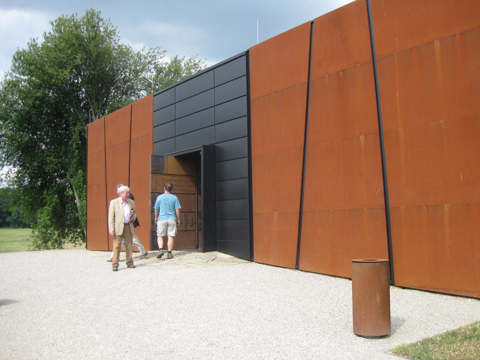 Mikulčice. Exterior of exhibition pavilion built over 2nd Church in 2010.